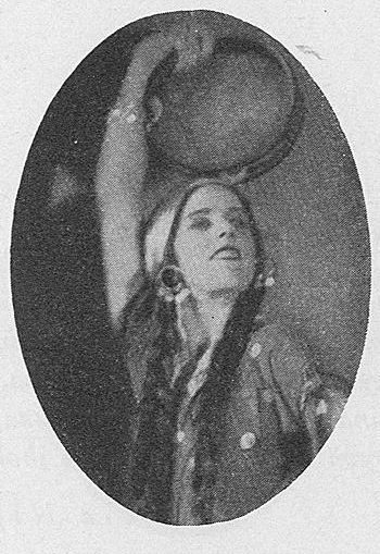 Finnish dancer and choreographer Liisi Hallas, early 1930s.